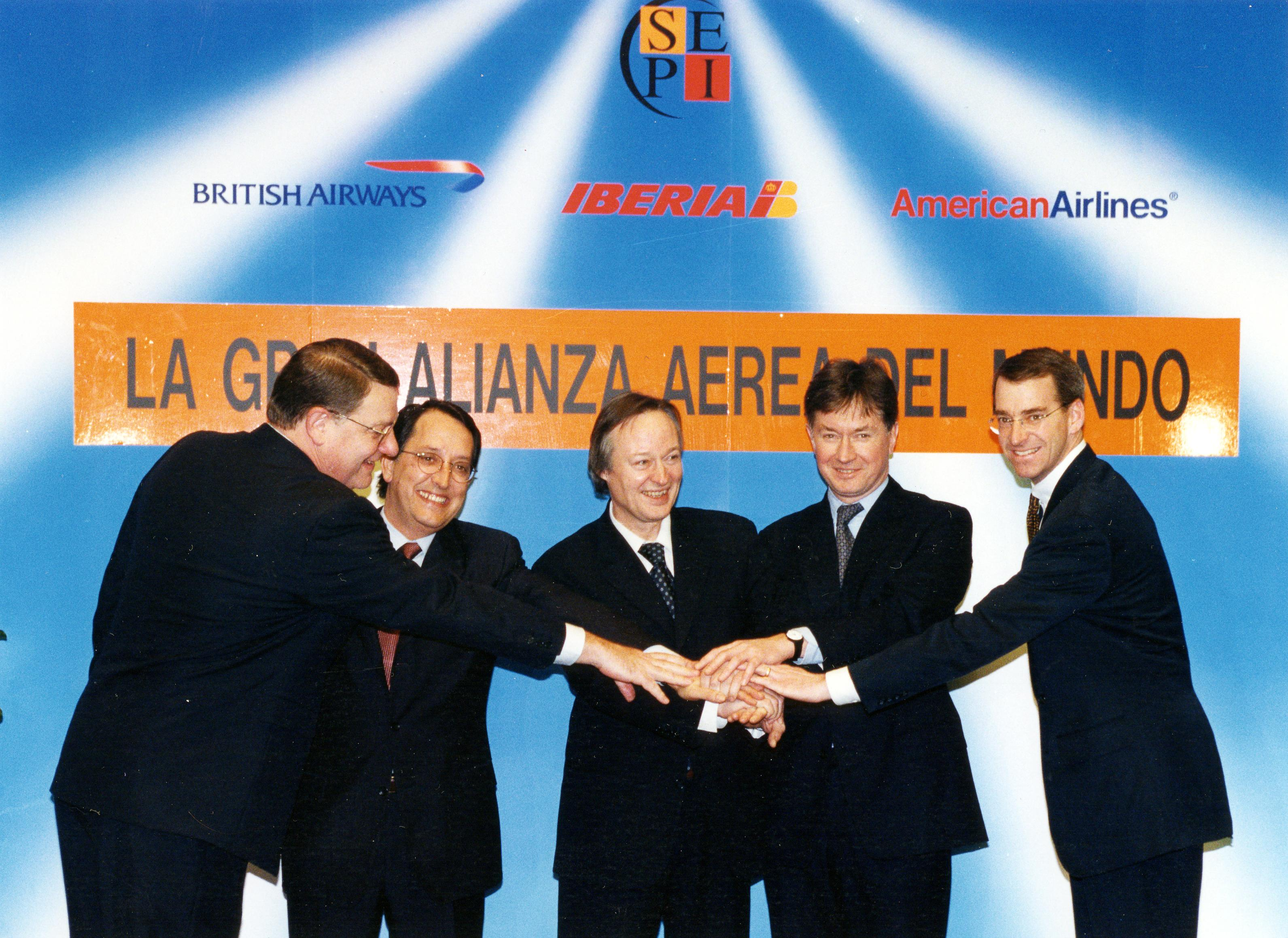 Marking Iberia's alliance with British Airways and American Airlines (1999)